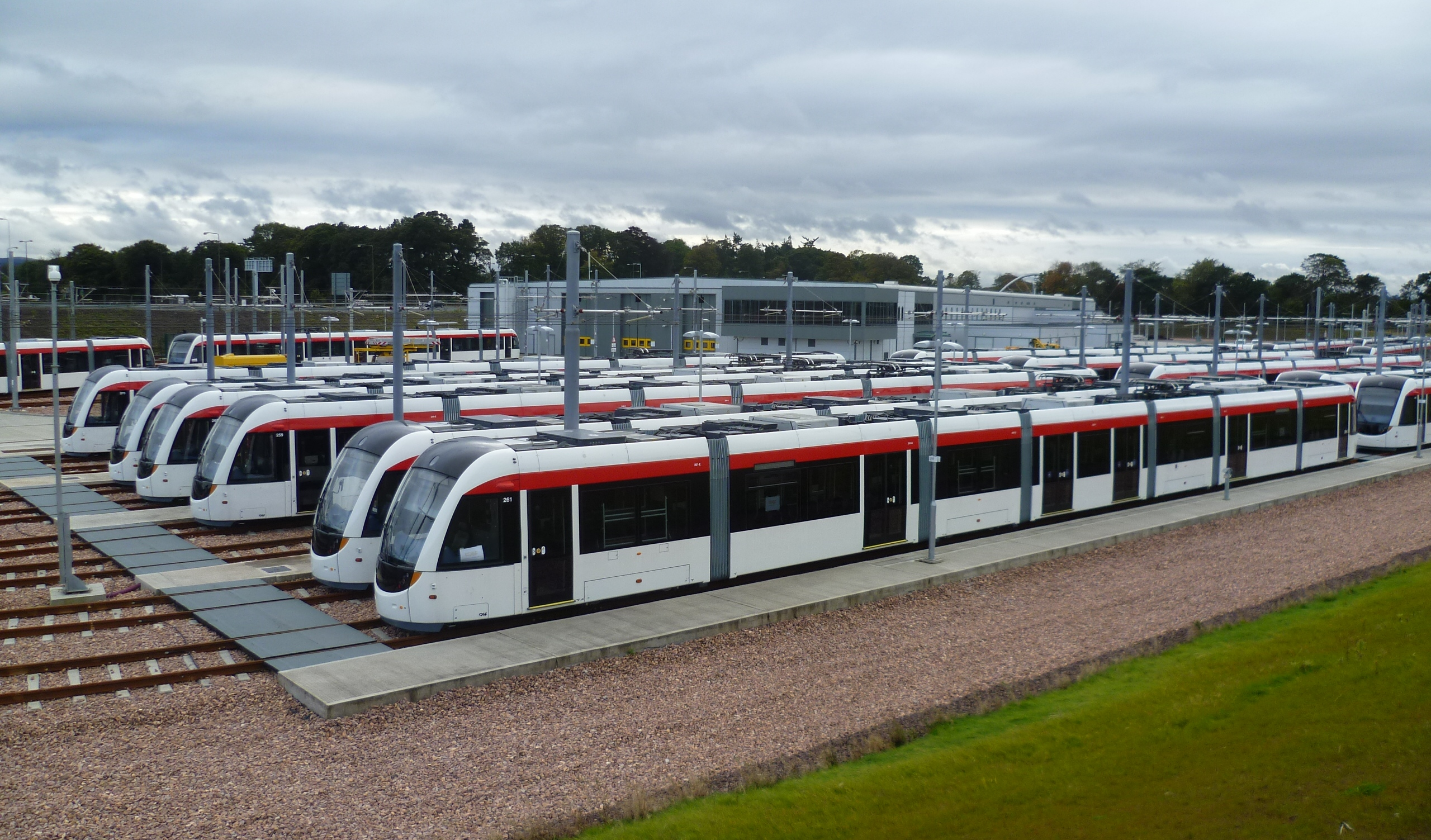 Edinburgh trams at Gogar Tram Depot, 2012